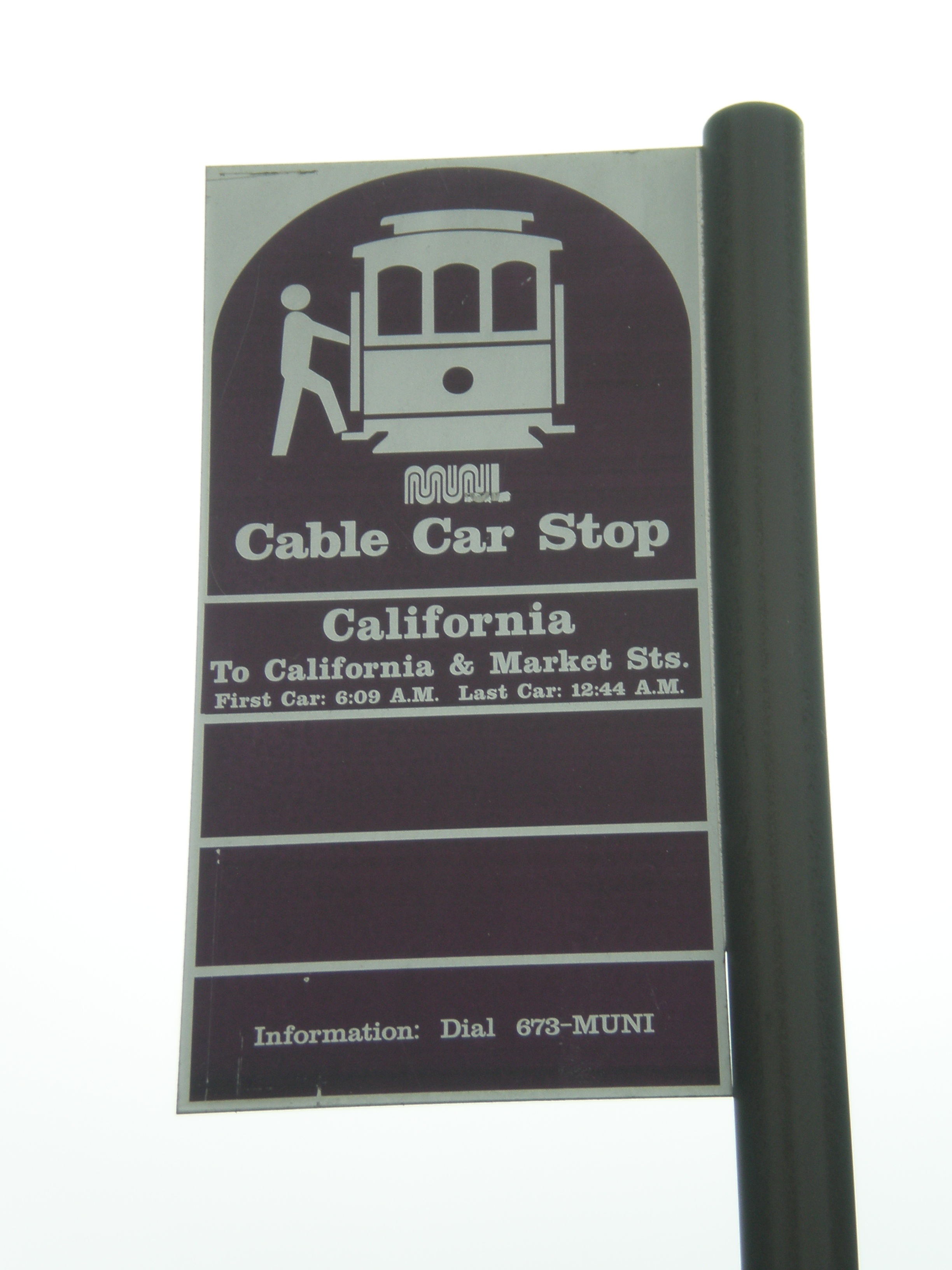 The sign for the San Francisco cable car stop at the end of California Street.